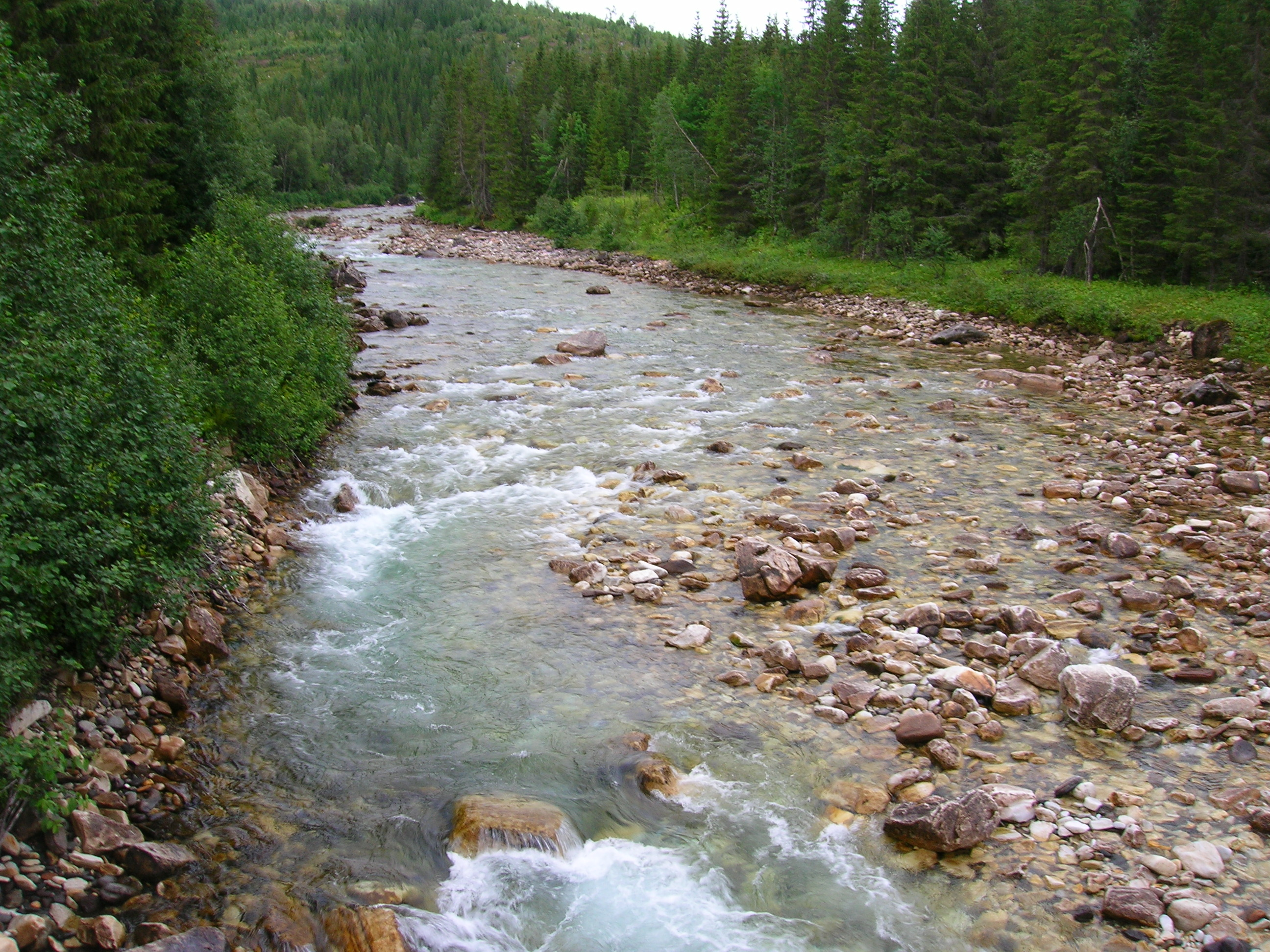 Grønnfjellåga seen 3,5 km east of its outlet in Ranelva at Stupforsmoen. Rana municipality, county of Nordland, Norway, Photo 6 August, 2007 with a Nikon Coolpix 5600 5,1 Megapixel camera.